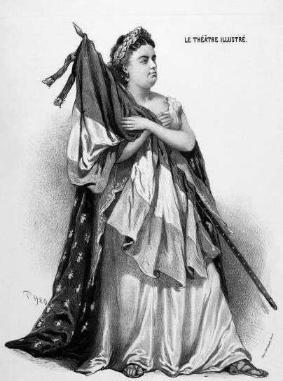 Belgian soprano Marie Sasse (1834-1907) singing La Marseillaise at the Théâtre impérial de l'Opéra in Paris. Illustration by Théo (18? - 18?) from Le Théâtre illustré (1869).